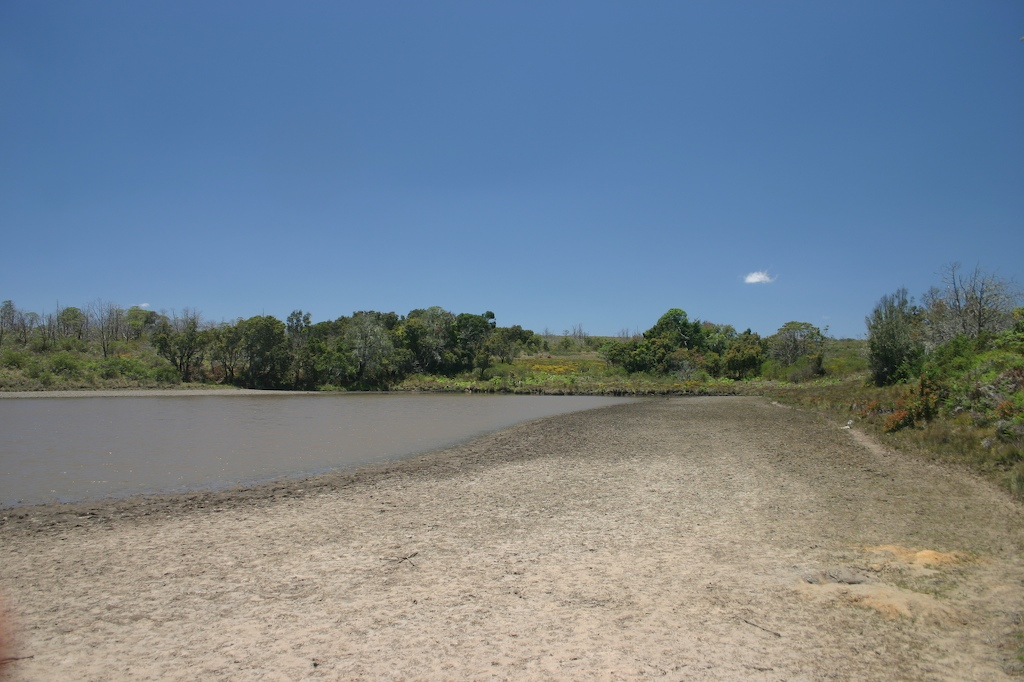 Lake Kaulime